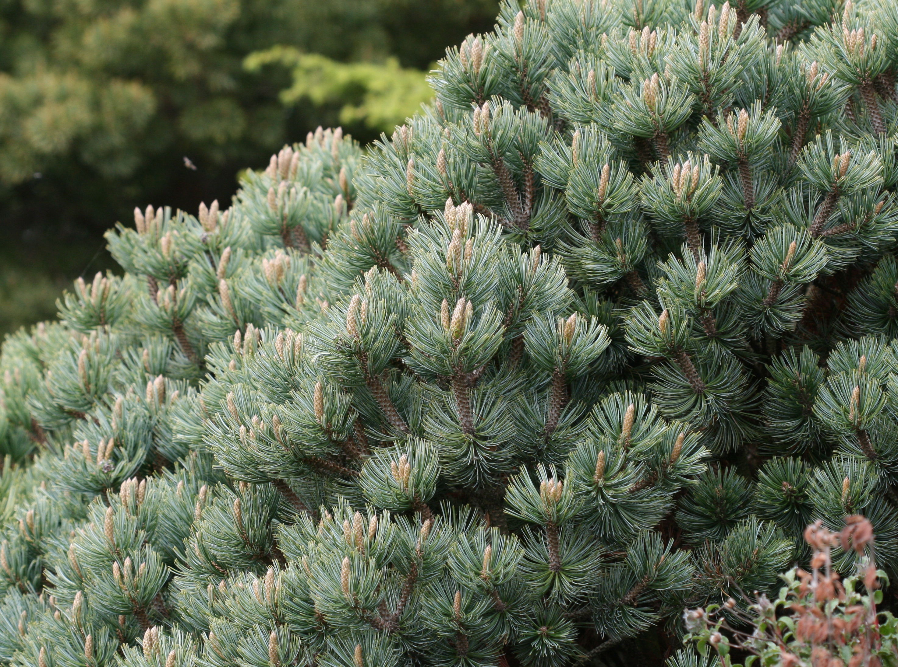 Pinus culminicola (Potosi Pinyon), cultivated, Royal Botanic Garden, Edinburgh, Scotland.